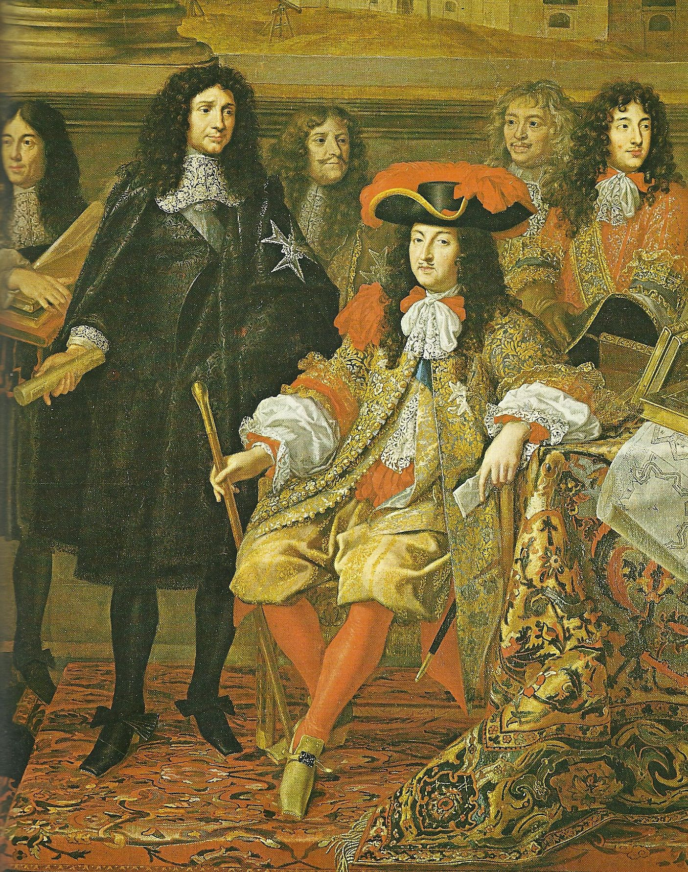 King Louis XIV. of France (centre, sitting) with his Minister Colbert (black robe, standing) during the foundation of the Académie des sciences (1666?)